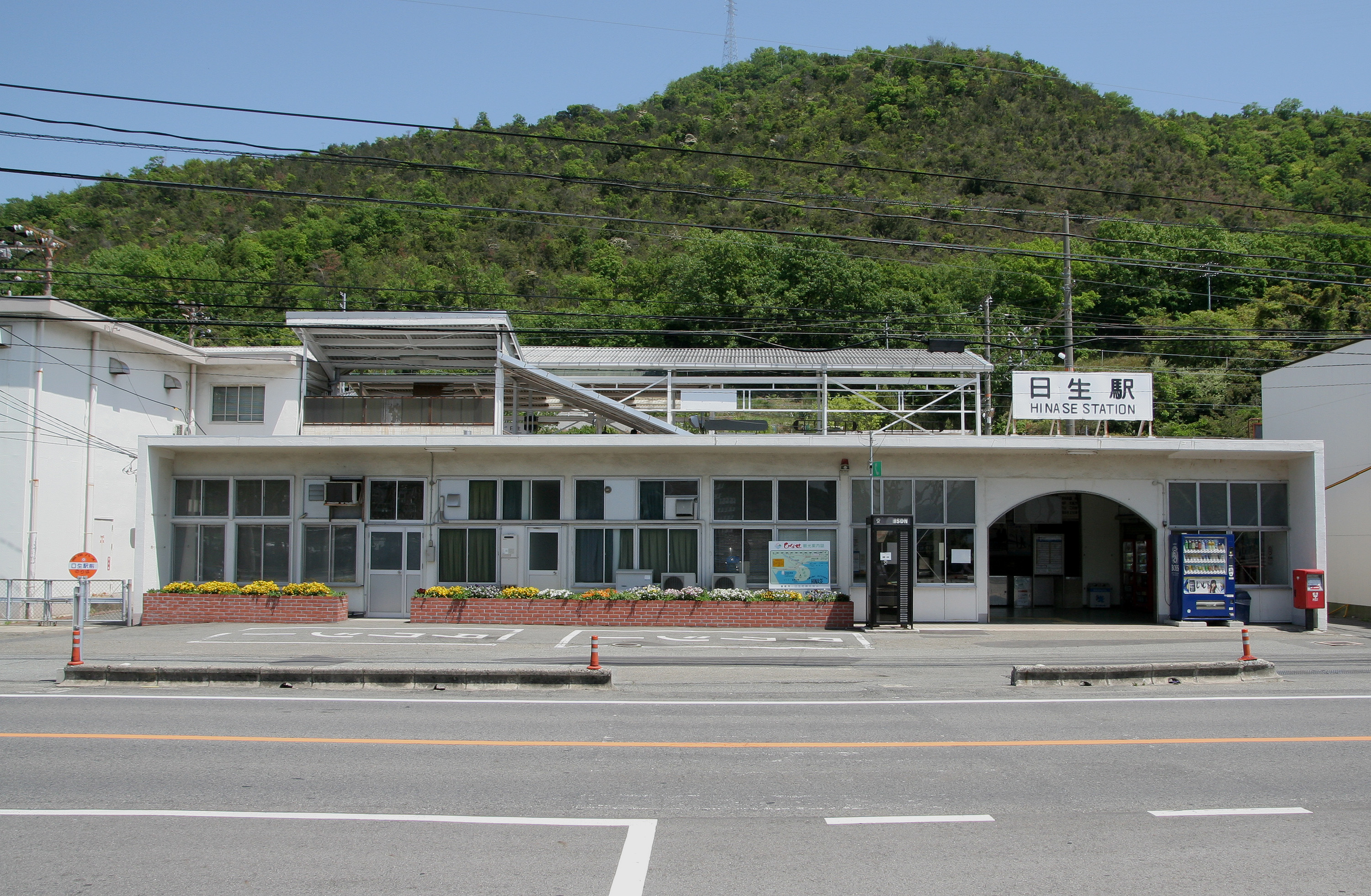 West Japan Railway Company Akō Line Hinase Station.